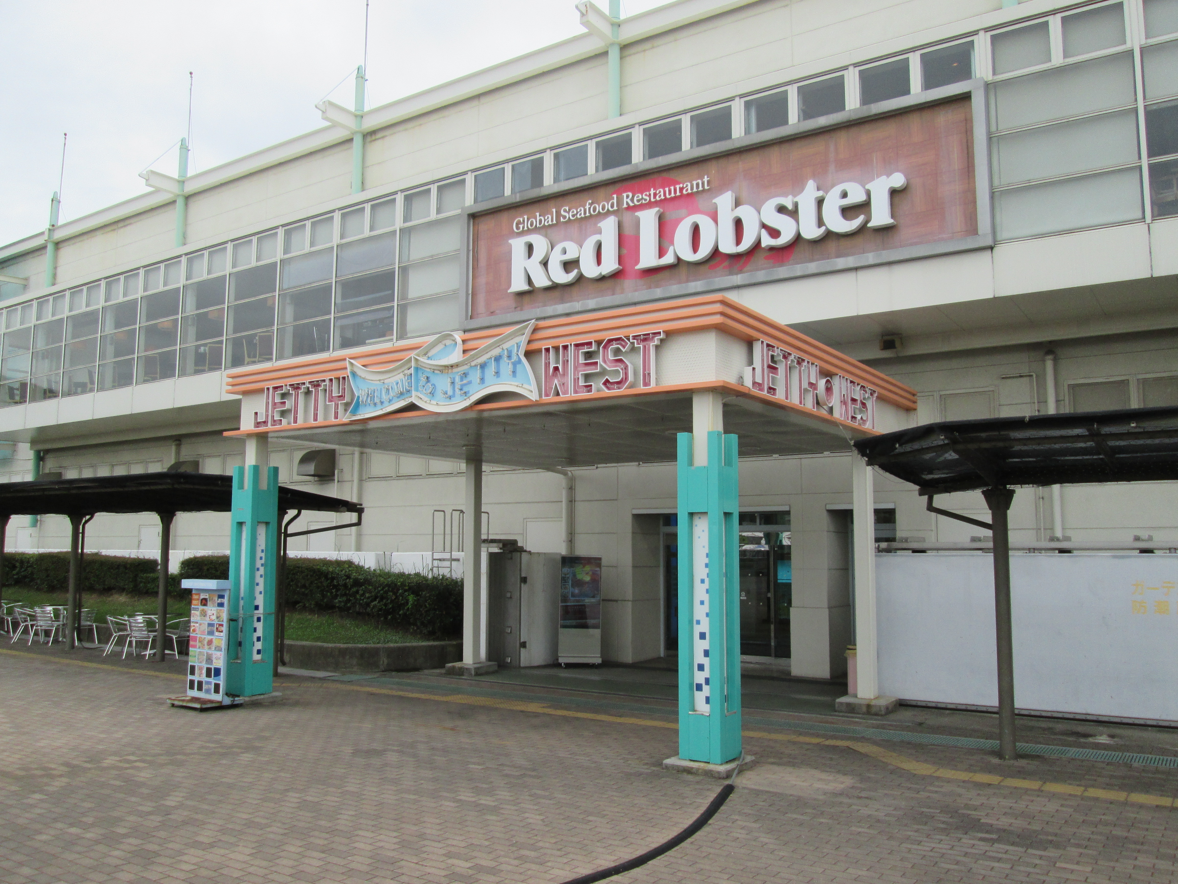 Jetty West Red Lobster